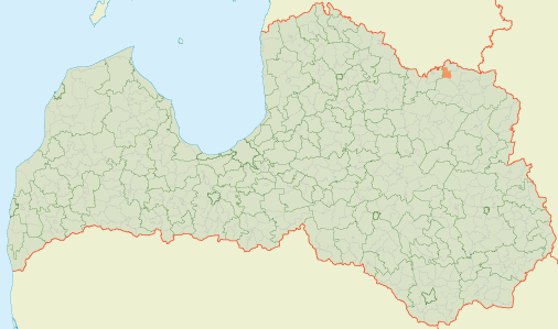 Location of Jaunlaicene Parish in Latvia